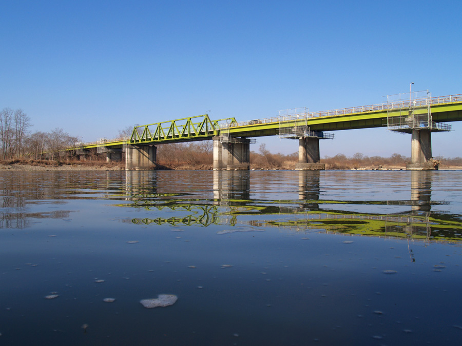 The Koyogi Bridge carries Route 397 over the Kitakami River in Oshu City, Iwate Prefecture.